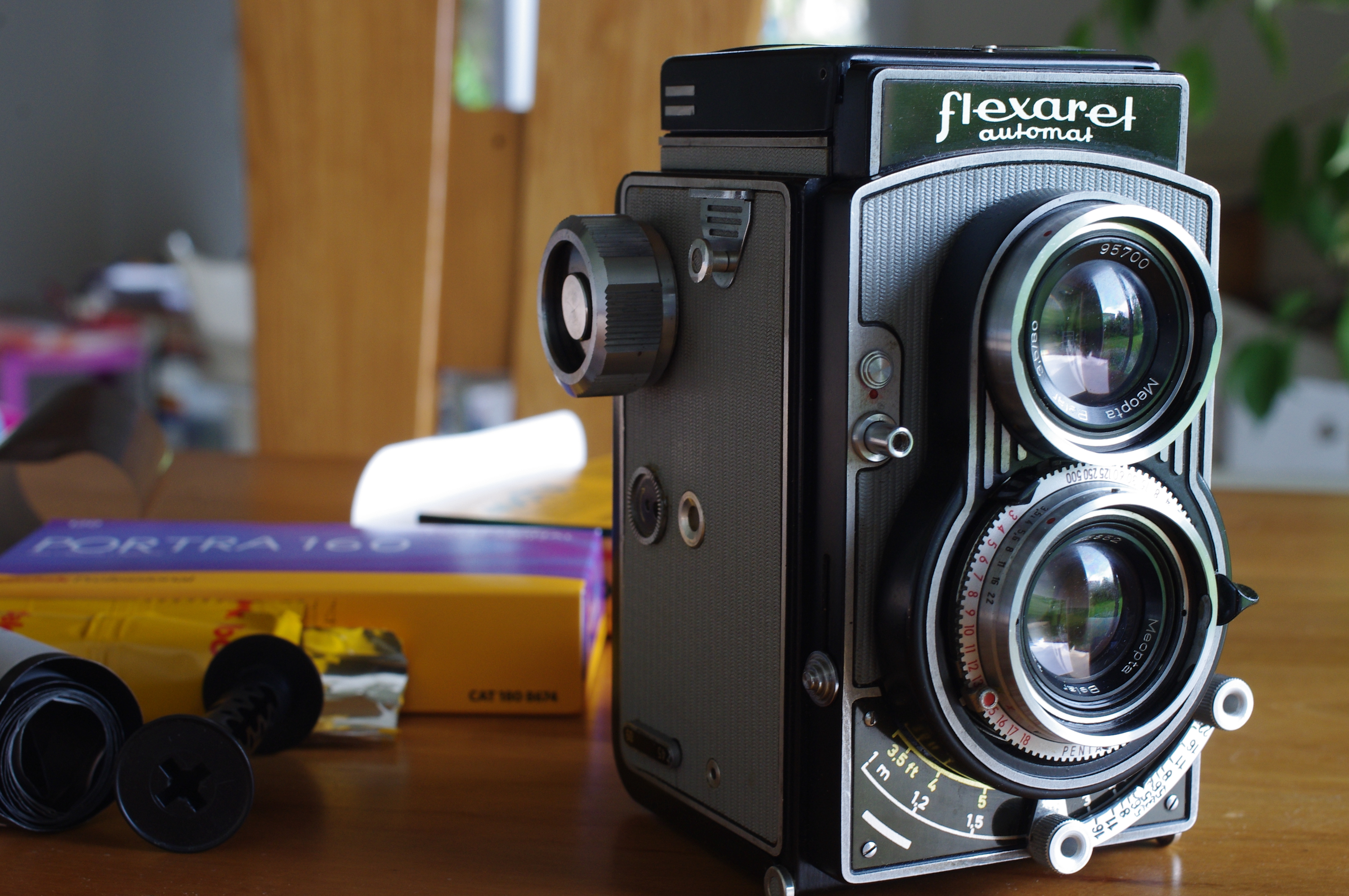 Bourse photo près de Toulouse . J'ai craqué ... Mon premier Moyen Format Joli et pas trop cher ... les premières photos avec l'appareil sont moins glorieuses Market photo near Toulouse. I could not resist ... My first medium format Nice and not too expensive ... the first pictures with the camera are less glorious